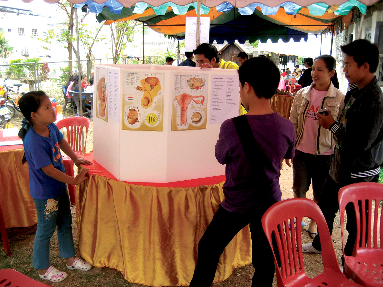 Young Laotians study a display about the human reproductive system, at a learning festival in Luang Prabang, Laos. Exhibits such as this are rare in many less-developed countries, such as Laos. This event was held by Big Brother Mouse, a literacy and education project, which added Lao explanations to a commercially-available set of panels that were printed with English.